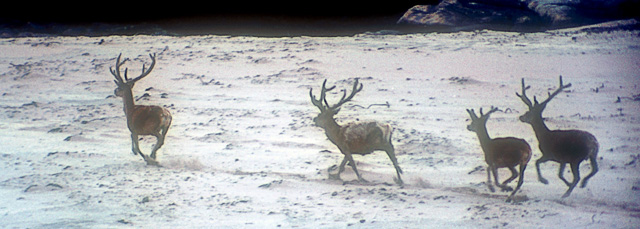 Red Deer on Kilmory Beach Just as we arrived at Kilmory we saw a sequence of Red Deer crossing the beach.